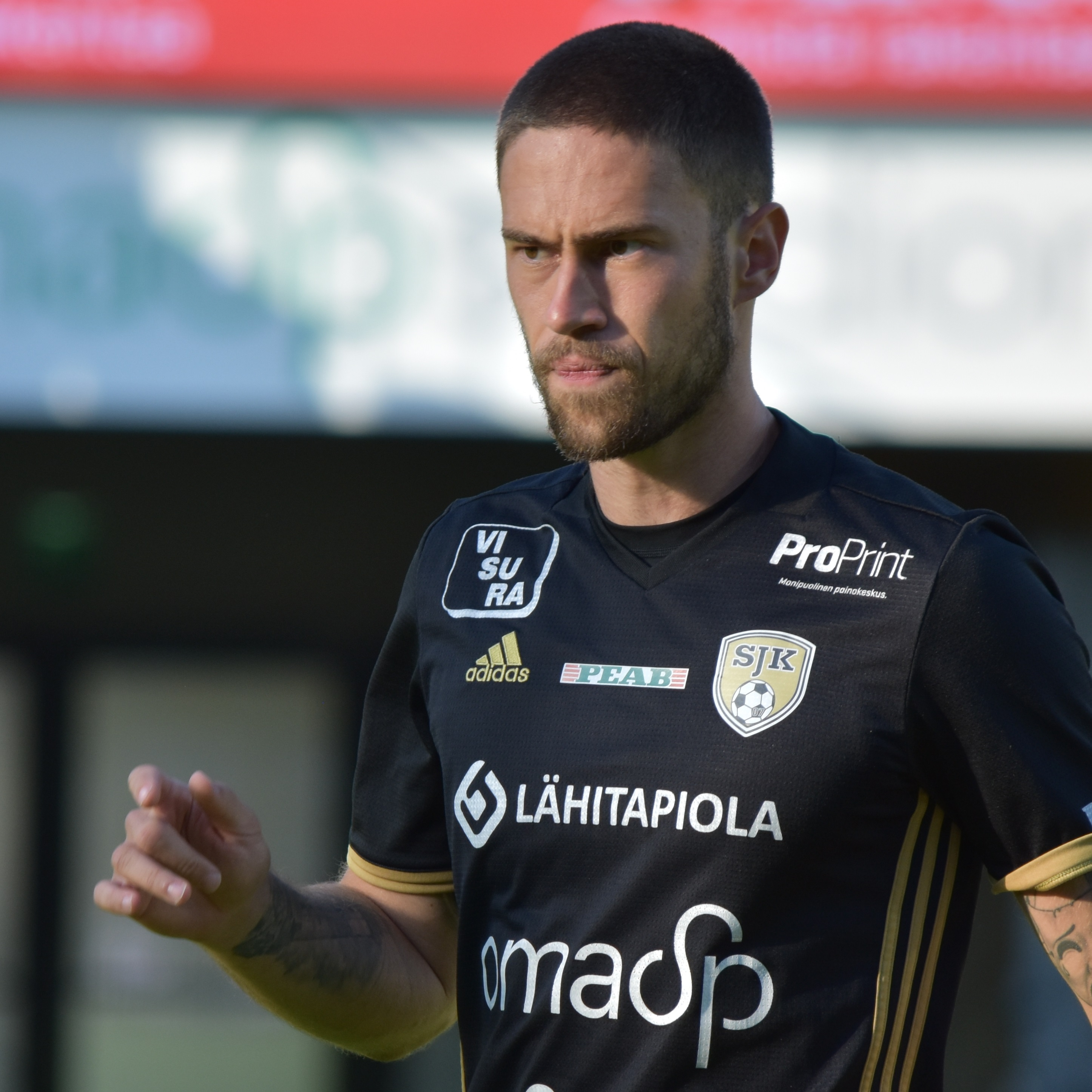 Association football player Vahid Hambo (SJK)